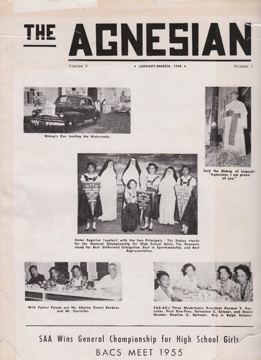 The Agnesian Newspaper. Photo courtesy of John P. Arcilla